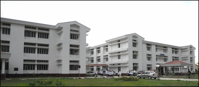 An academic Building of Tezpur University,2009